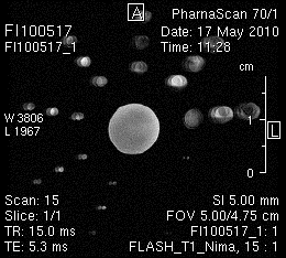 A FLASH T1W image of a research phantom at 7T. The ghosting artifacts seen in the image are due to Chemical Shifting. Chemical Shifting happens in the FE direction. The phantom contained a mixture of fat and water. Chemical shifting causes a seemingly duplicate copy to appear in the Frequency Encoding direction, as seen here with the spots. The central cavity contained 95% water, 5% Acetic Acid.